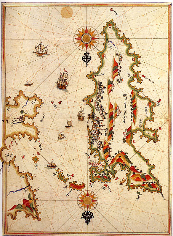 Island of Chios in Greece on the Kitab-Ä± Bahriye (Book of Navigation) of Piri Reis